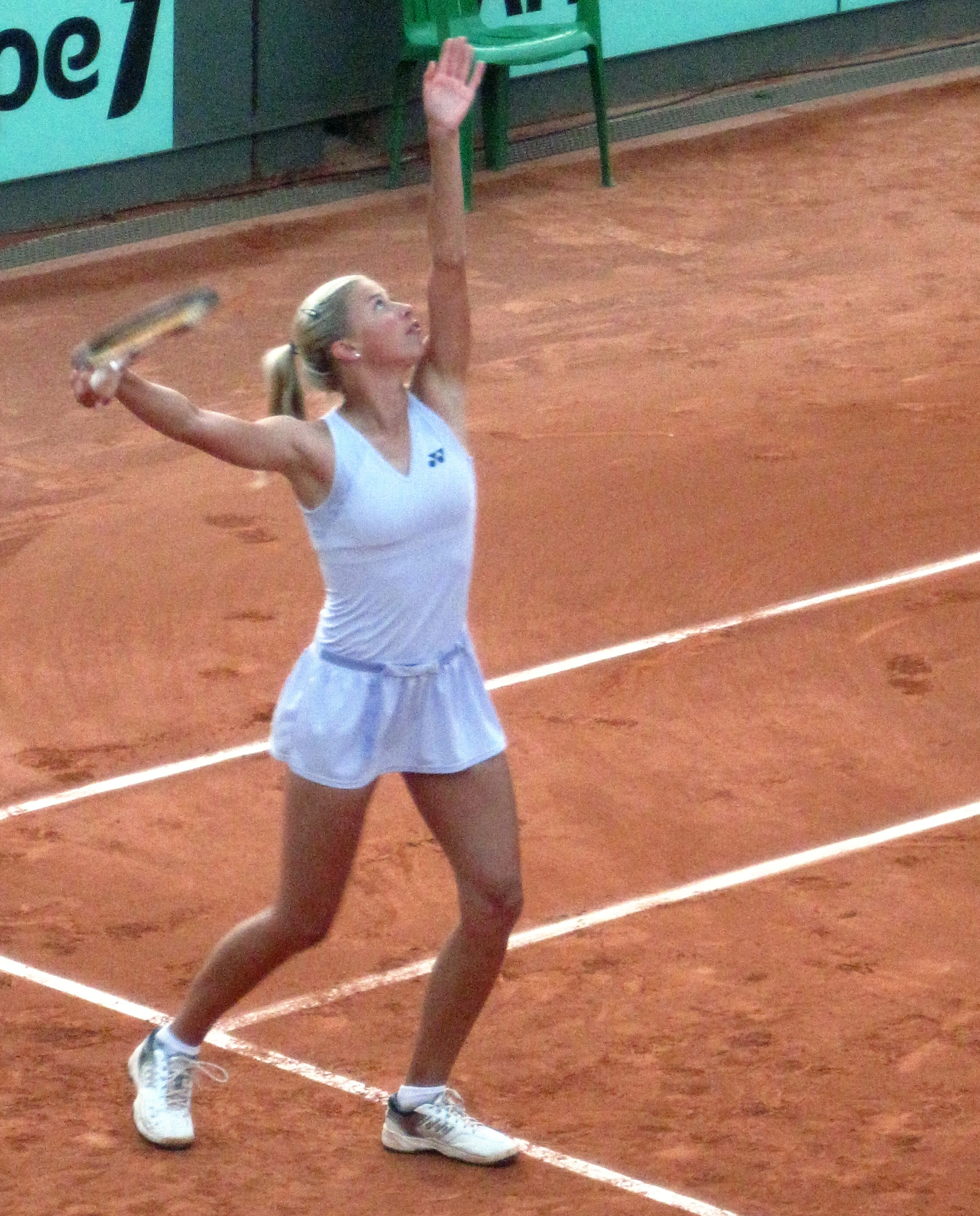 Andrea Hlaváčková at the 2009 French Open